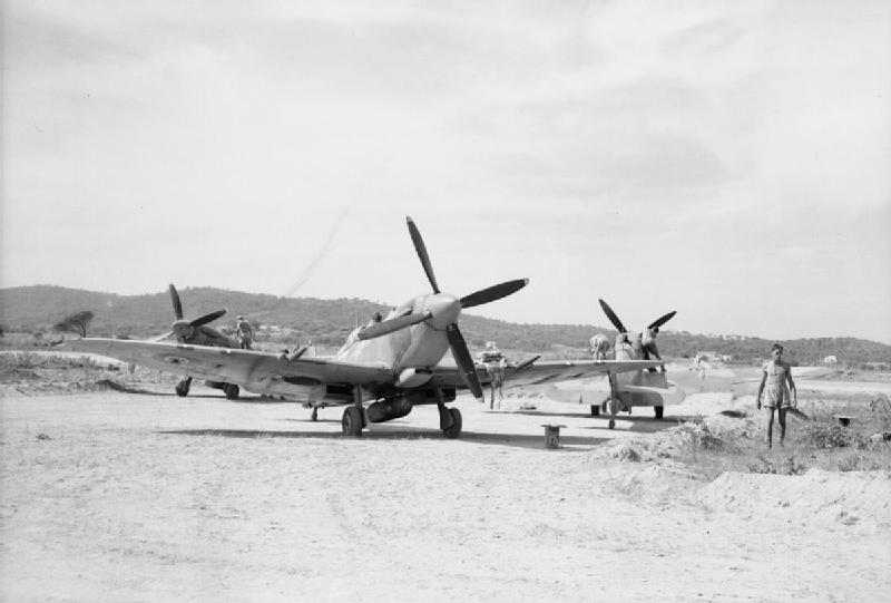 Royal Air Force Operations in Malta, Gibraltar and the Mediterranean, 1940-1945. Operation DRAGOON: the Allied invasion of southern France. Supermarine Spitfire Mark VIIIs and IXs of No. 43 Squadron RAF parked at dispersal points on Ramatuelle landing ground.